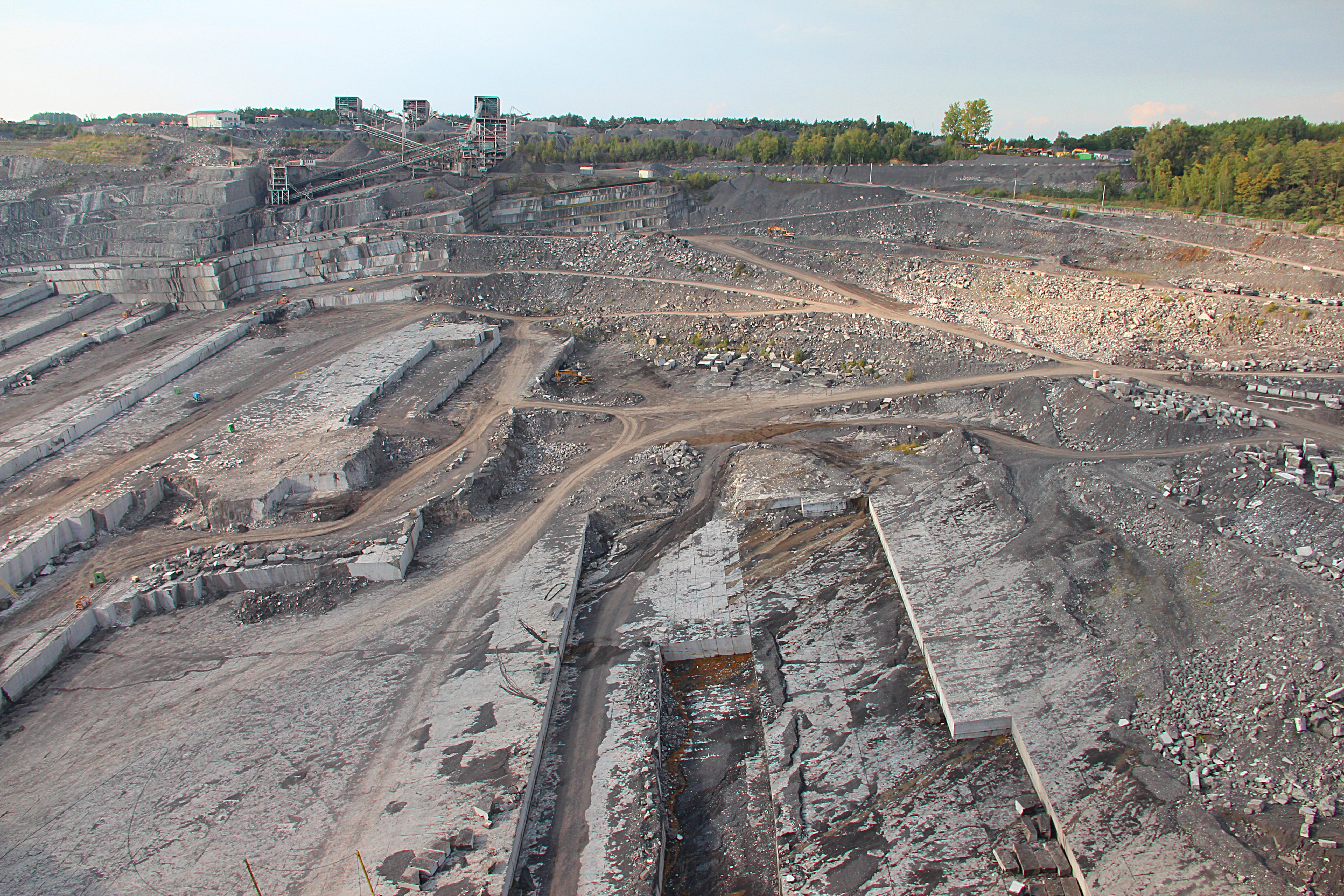 Soignies (Belgium), the site of the Hainaut quarry.